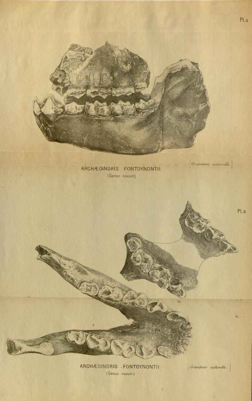 Photographs of mandible and maxillary fragments of Archaeoindris fontoynontii, published in Bulletin de l'Académie Malgache No. 6 (1909) by Herbert F. Standing